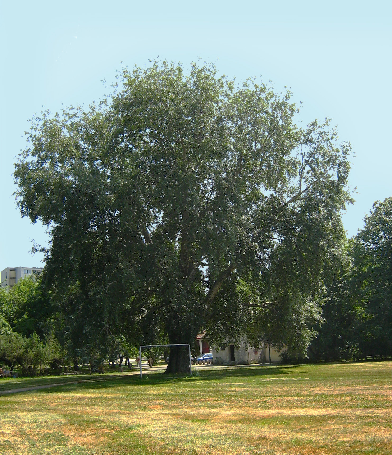 White poplar in Malicki Park in Warsaw. Natural monument.